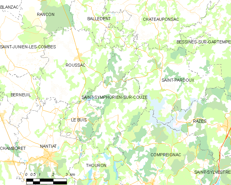 Map of French municipality Saint-Symphorien-sur-Couze